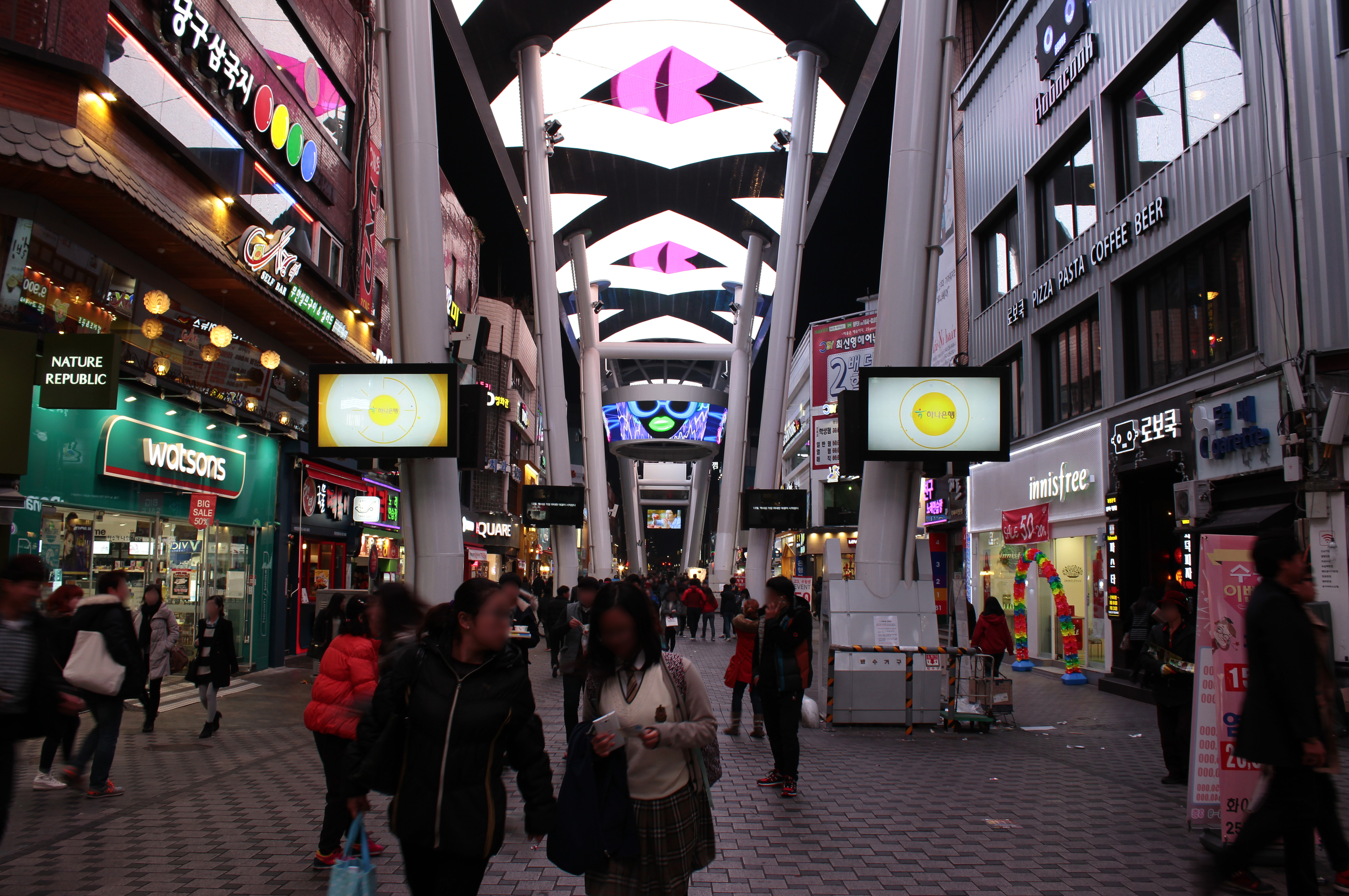 @Dong-gu, Daejeon